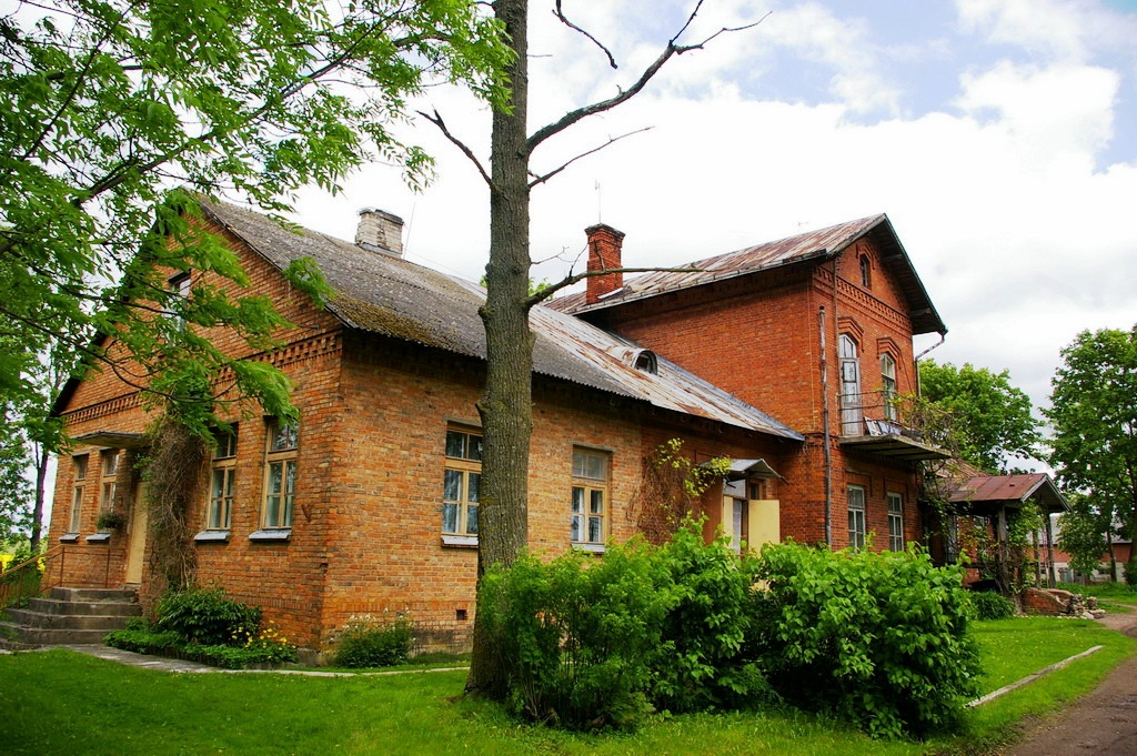 Padauguvėlė manor, Kaunas district, Lithuania